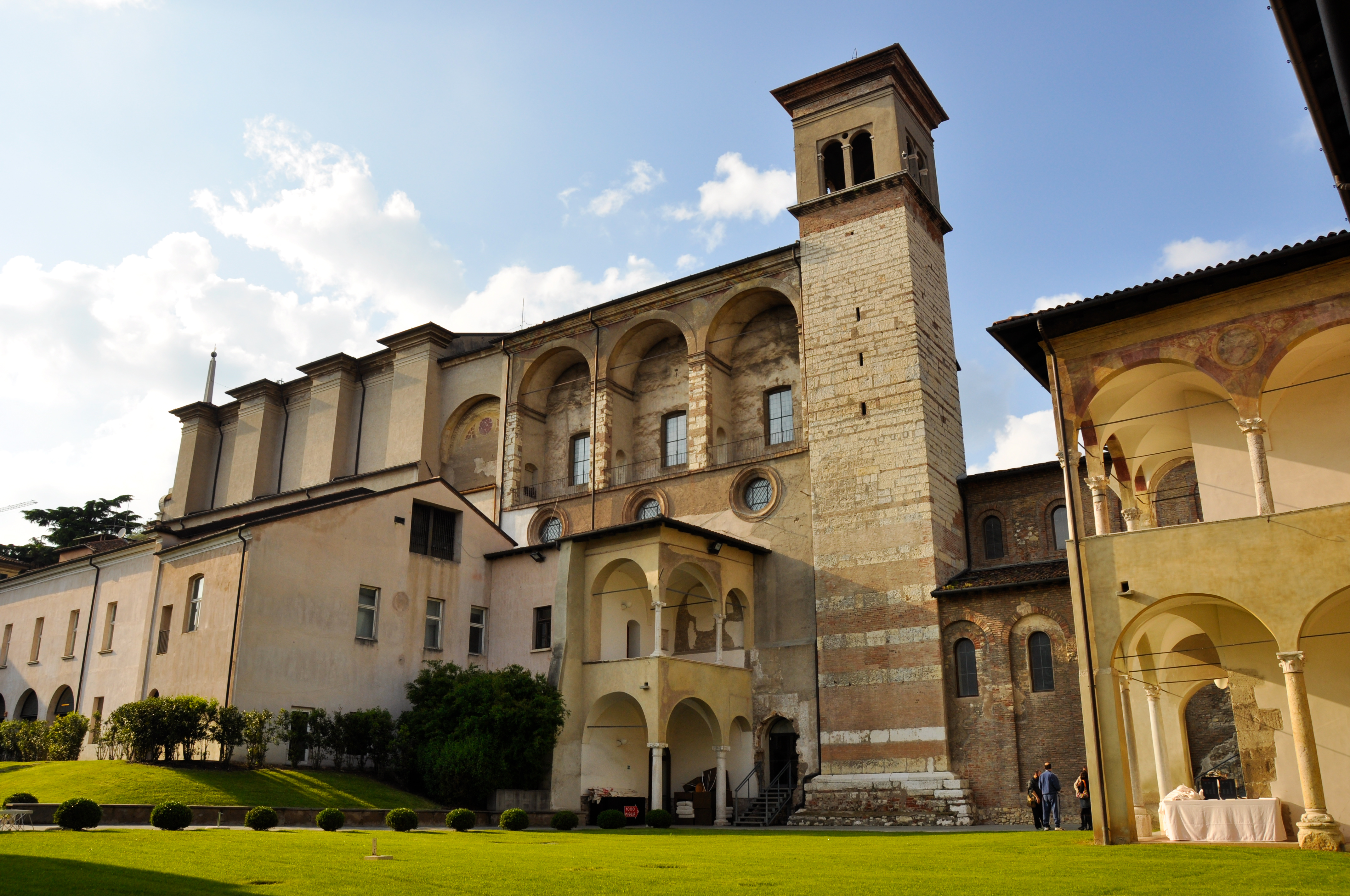 The Basilica of San Salvatore in Brescia, Italy, a UNESCO World Heritage Site.